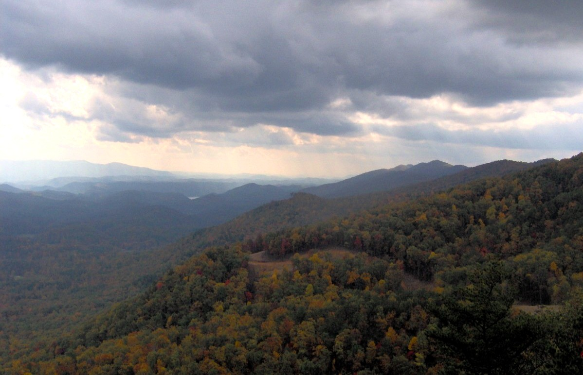 Chilhowee Mountain, looking toward Chilhowee Lake and the ancient village of Chilhowee in East Tennessee. Part of Chilhowee Lake can barely be seen in center-left. According to Cherokee lore, this is where the Cherokee trapped the mythical ogress, Utlunta. Abrams Creek, named after Chief Abraham of Chilhowee, flows through the valley on the left.